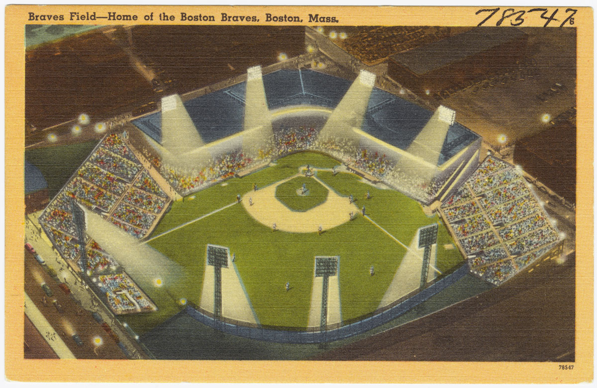 Accession No.: 06_10_000022 Subject: Boston (Mass.) Front Caption: Braves Field -- Home of the Boston Braves, Boston, Mass. Back Caption: Braves Field -- Home of the Boston Braves Baseball Team of the National League. Braves Field is located just off Commonwealth Ave. (Allston) Boston at Gaffney and Babcock Streets. It has a seating capacity of 40,000. The park was built in 1915 and lighting equipment for night baseball was installed in 1946. The filed is also the home gridiron of the Boston College Football Team. Publishing information: Tichnor Bros. Inc., Boston, Mass. Format: postcard BPL Collection: Tichnor BPL Department: Print Department